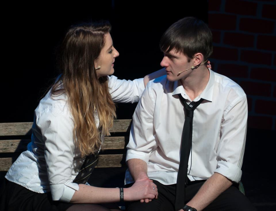 Elli Bruce as Sarah and Alexander McDonald-Smith as Joe in Curtain Call's 2013 production 'Our House'. Photography by Alex Stuart at AJFS Photography